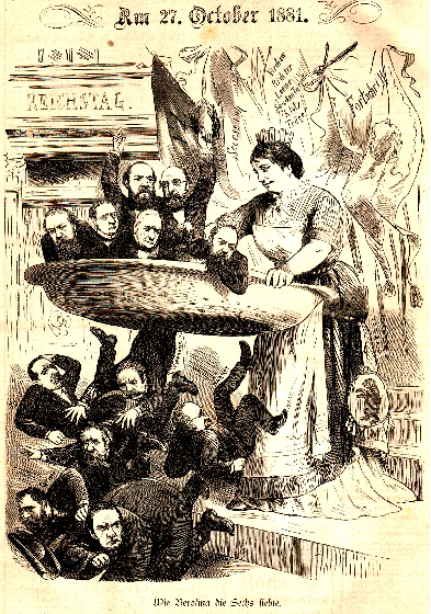 "How Berolina sifted the six." On October 27, 1881, the candidates of the Progressive Party in all six Berlin electoral districts (Rudolf Virchow, Eugen Richter, Albert Träger, Kurt von Saucken-Tarputschen, Ludwig Loewe und Moritz Klotz) win a plurality of the votes in the first round of the Reichstag elections. Four of them are directly elected, two will win their seats in a run-off against the Social Democrats. The candidates of the anti-Semitic "Berliner Bewegung" (Berlin Movement) fall through. Berolina is the personification of Berlin, the wording is a pun on the word "sieben" (to sift) which also means "seven". From the satirical weekly Berliner Wespen (Berlin Wasps), November 2, 1881